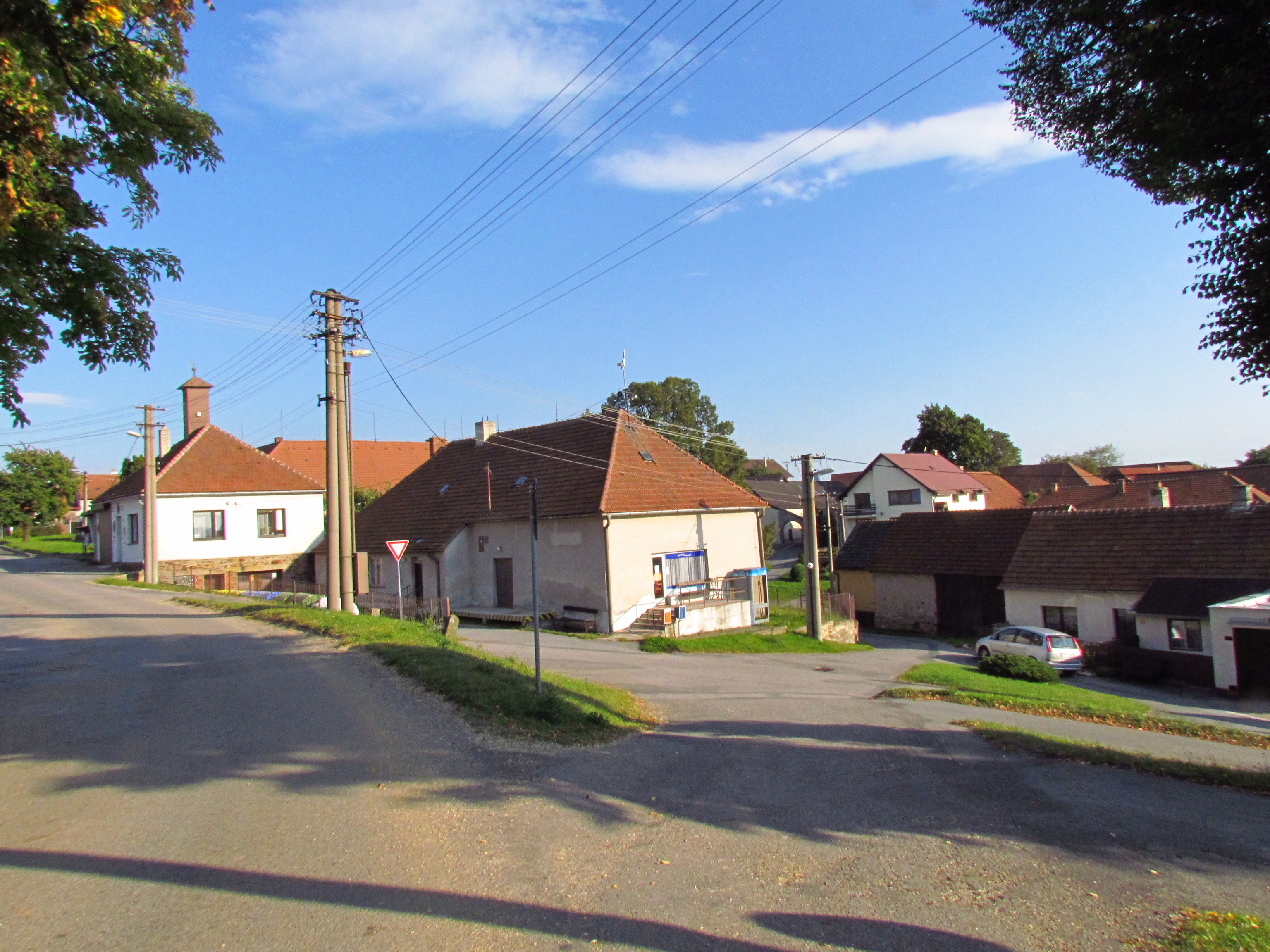 Center of Chlum, Třebíč District.